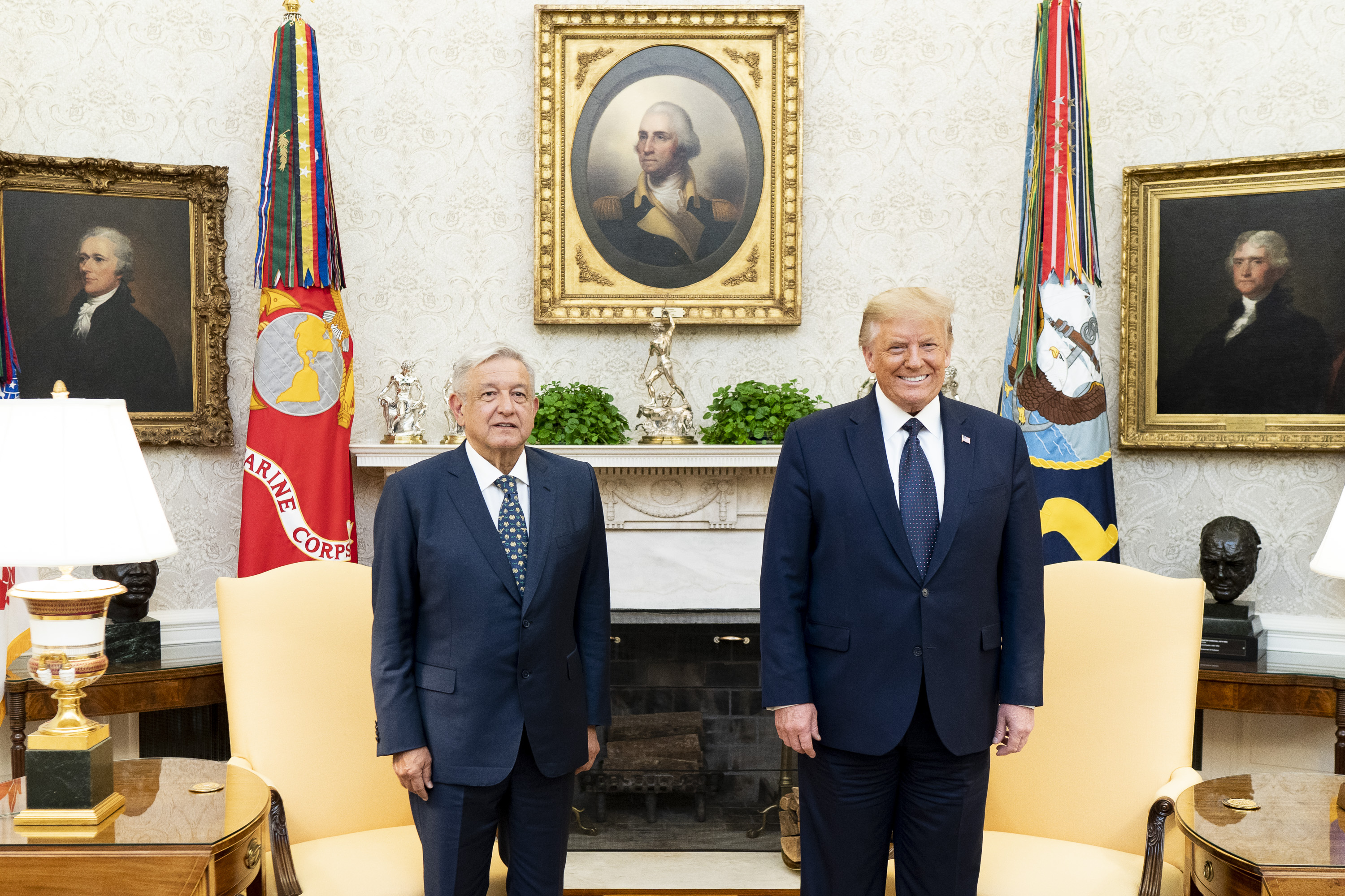 President Donald J. Trump welcomes the President of the United Mexican States Andres Manuel Lopez Obrador Wednesday, July 8, 2020, to the Oval Office of the White House. (Official White House Photo by Shealah Craighead)